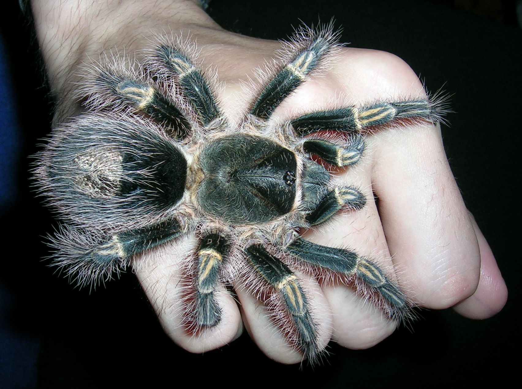 Grammostola pulchripes L9 female on a hand.